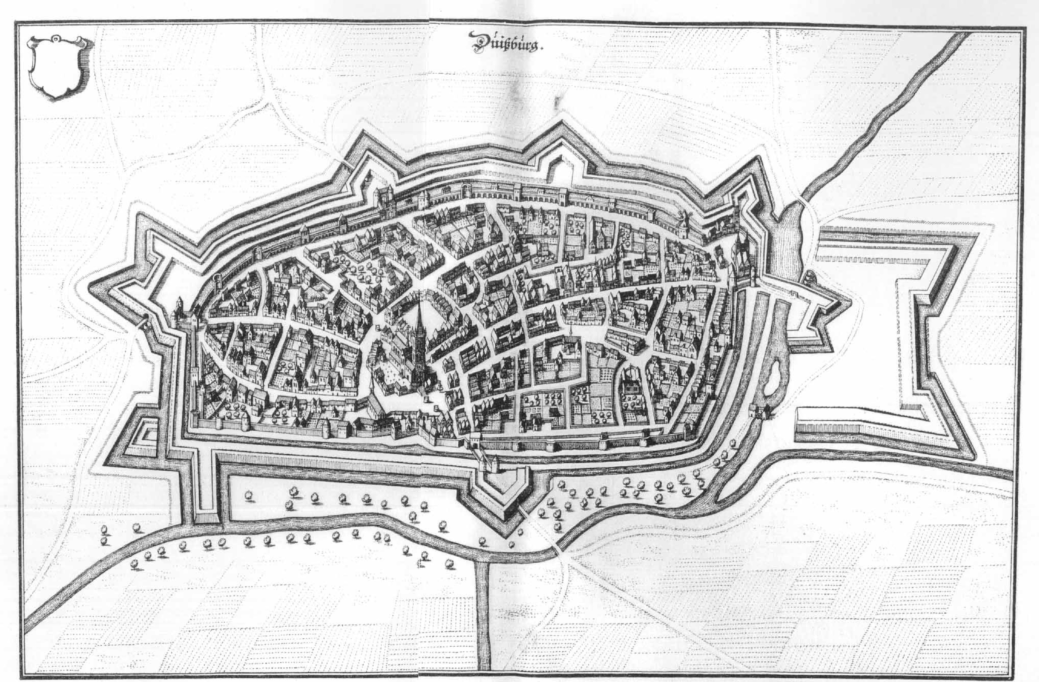 This is a scan of the historical document